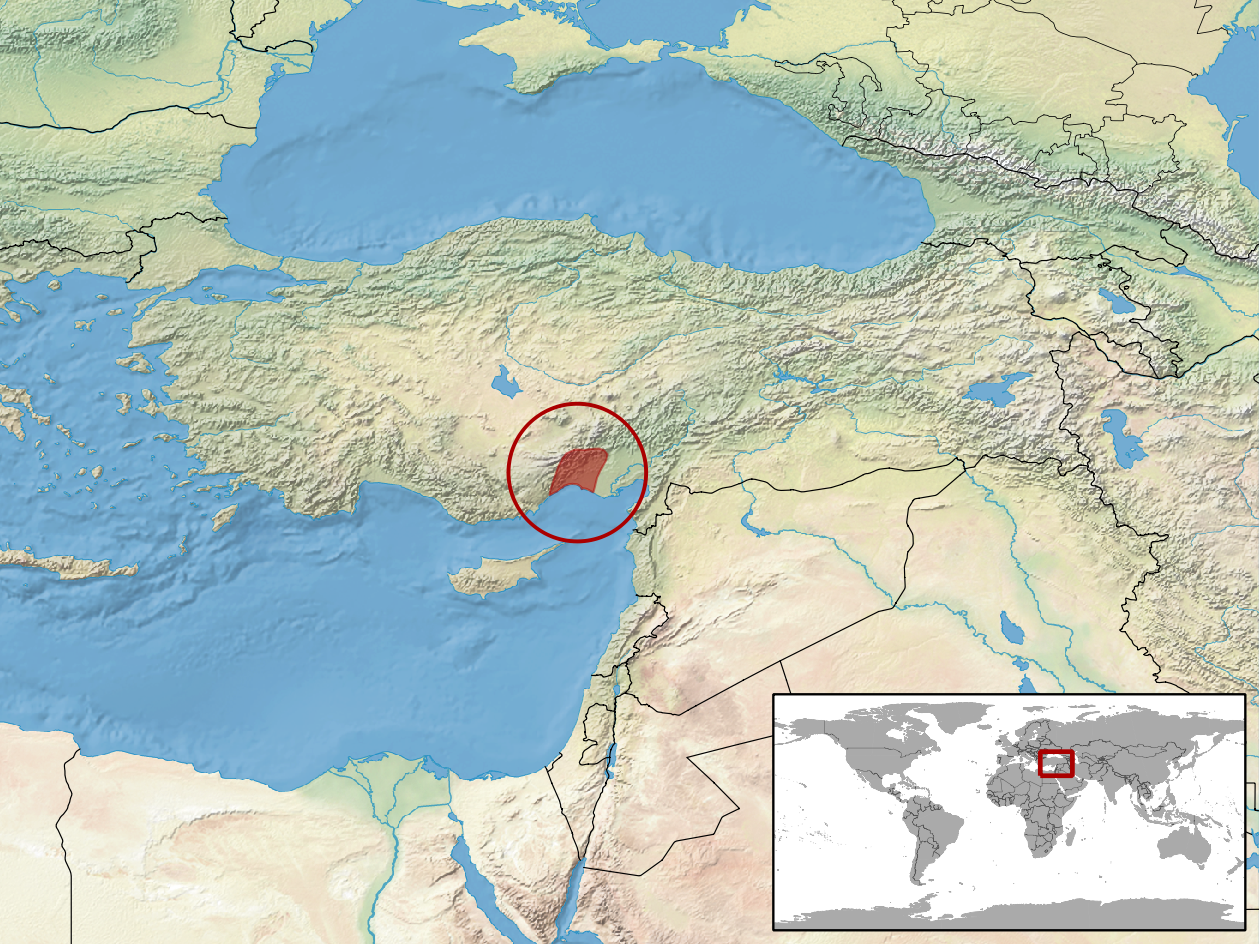 geographic distribution of Eirenis aurolineatus (Native: Turkey)